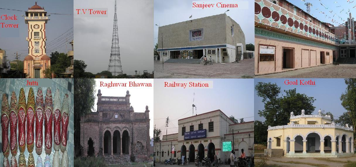 Fazilka - town and TV-Tower